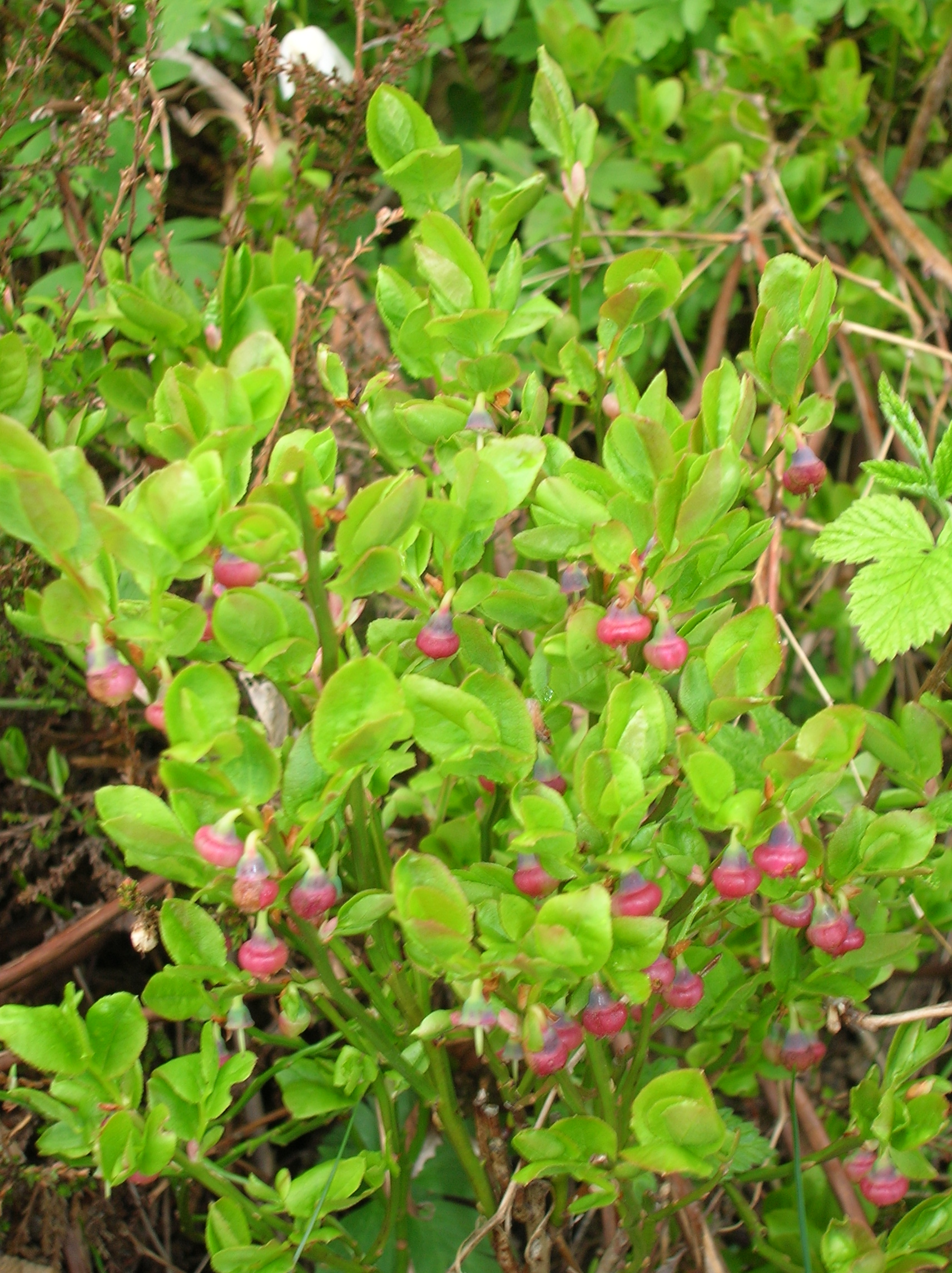 Norwegian bilberry flowers (Vaccinium myrtillus)